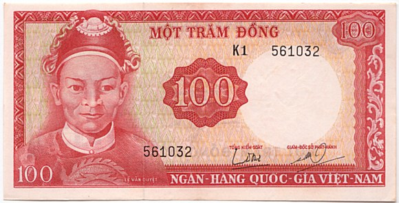 A banknote issued by the government of the Republic of Vietnam (越南共和, Việt-Nam Cộng-Hòa / République du Viêt-Nam) for circulation in South Vietnam. This banknote is denominated in in "Đồng" (銅). Face: Le Van Duyet; denomination; Text: MỘT TRĂM ĐỒNG = One hundred dong; NGÂN-HÀNG QUỐC-GIA VIỆT-NAM = National Bank of Vietnam; TỔNG KIỂM-SOÁT = Inspector General [signature: Nguyễn Văn Dõng]; GIÁM-ĐỐC SỞ PHÁT-HÀNH = Director, Issue Department [signature: Lưu Vĩnh Lương]; Back: Le Van Duyet temple near Saigon; denomination; Text: NGÂN-HÀNG QUỐC-GIA VIỆT-NAM = National Bank of Vietnam; MỘT TRĂM ĐỒNG = One hundred dong; HÌNH LUẬT PHẠT KHỔ-SAI NHỮNG KẺ NÀO GỈA MẠO GIẤY BẠC DO NGÂN-HÀNG QUỐC-GIA VIỆT-NAM PHÁT RA = Criminal law centences to penal labor for counterfeiting paper money issued by the National Bank of Vietnam P-19a D-22A 100 Dong 1966 Watermark: Dragon head. P-19b D-22B 100 Dong 1966 Watermark: Le Van Duyet. P-19s1 D-S22A 100 Dong 1966 SPECIMEN Watermark: Dragon head; Face: overprint GIẤY MẪU KHÔNG GIÁ TRỊ = Specimen no value; Face/Back: overprint GIẤY MẪU = Specimen Watermark: Dragon head Watermark: Le Van Duyet